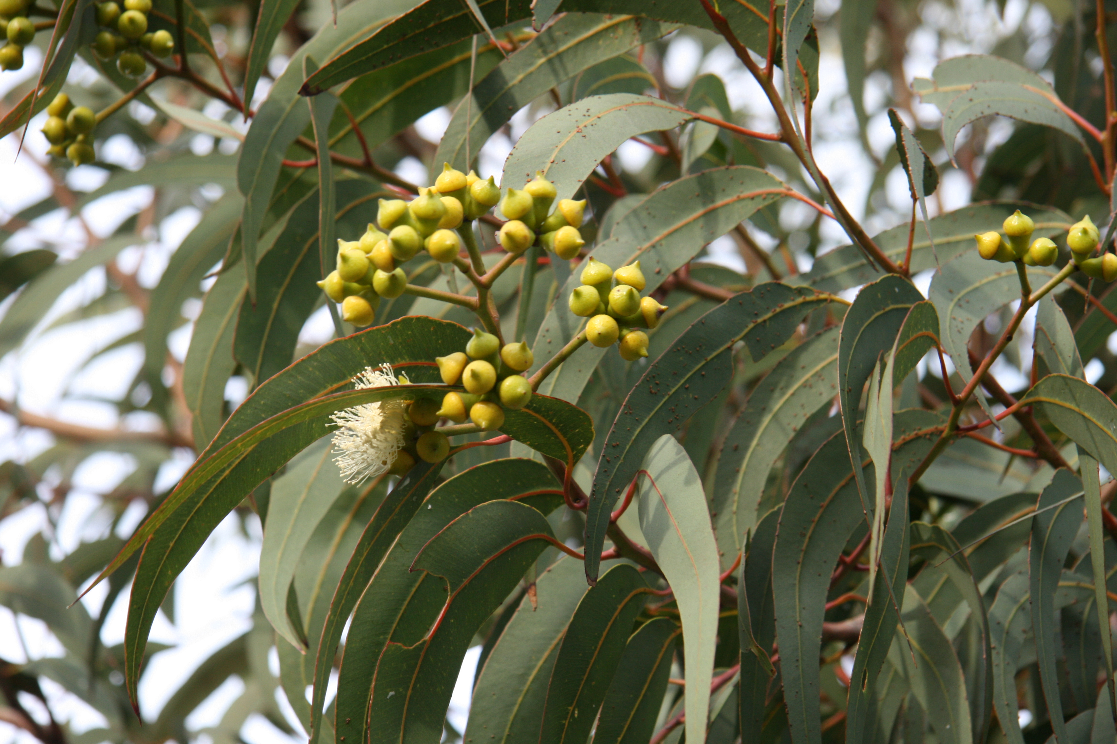 Corymbia eximia (cultivated as street tree, Marrickville), buds